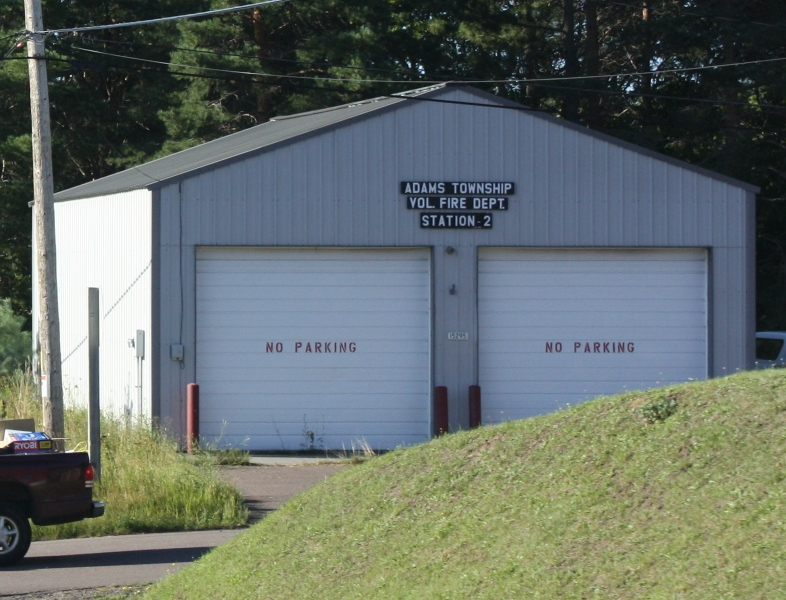 Looking at the fire station Adams Township, Houghton County, Michigan on M26 (Michigan highway).